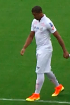 Rodrigao 2016